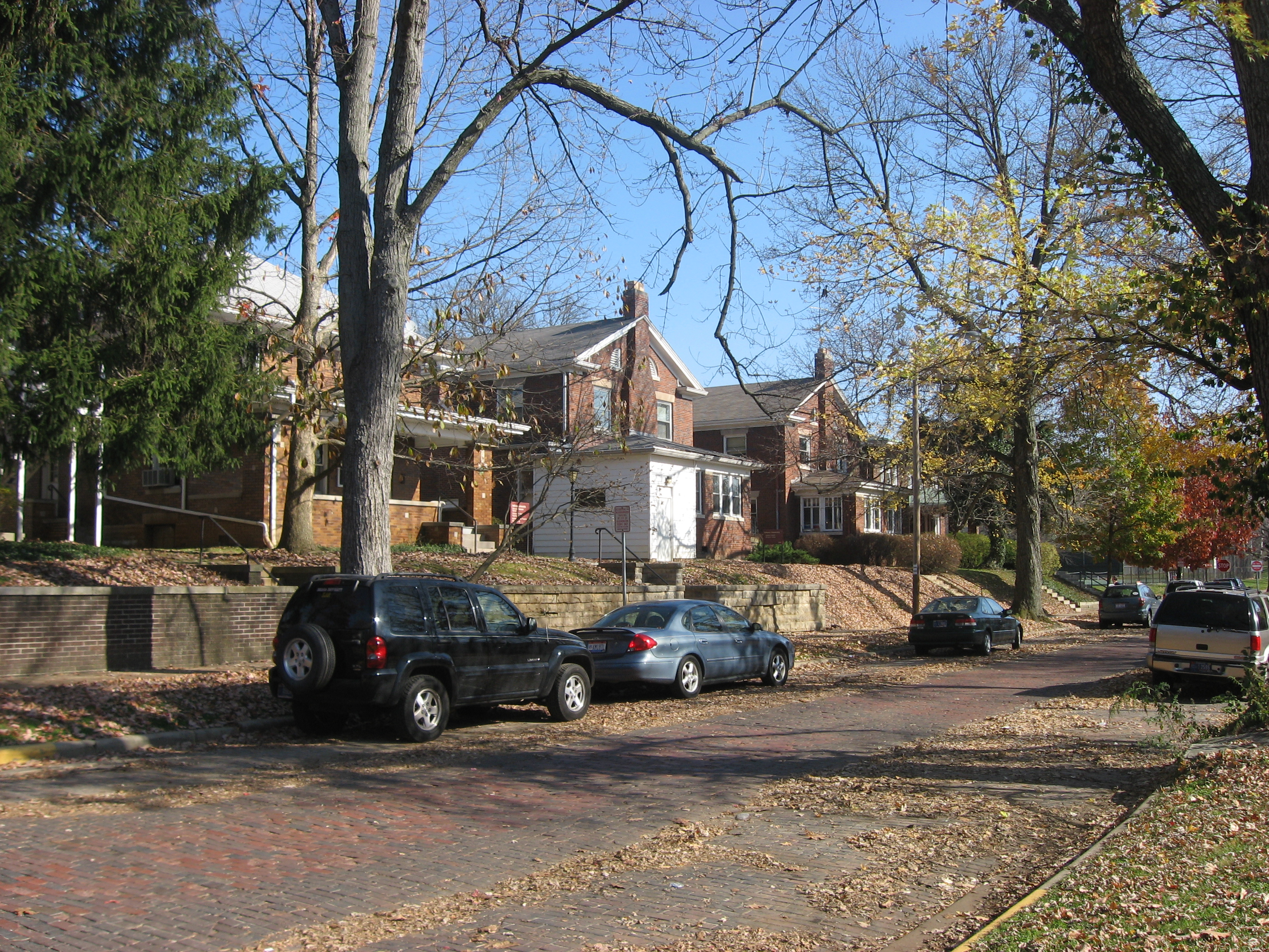 Houses on the northern side of the 800 block of E. Eighth Street in Bloomington, Indiana, United States. This block is part of the University Courts Historic District, a historic district that is listed on the National Register of Historic Places.